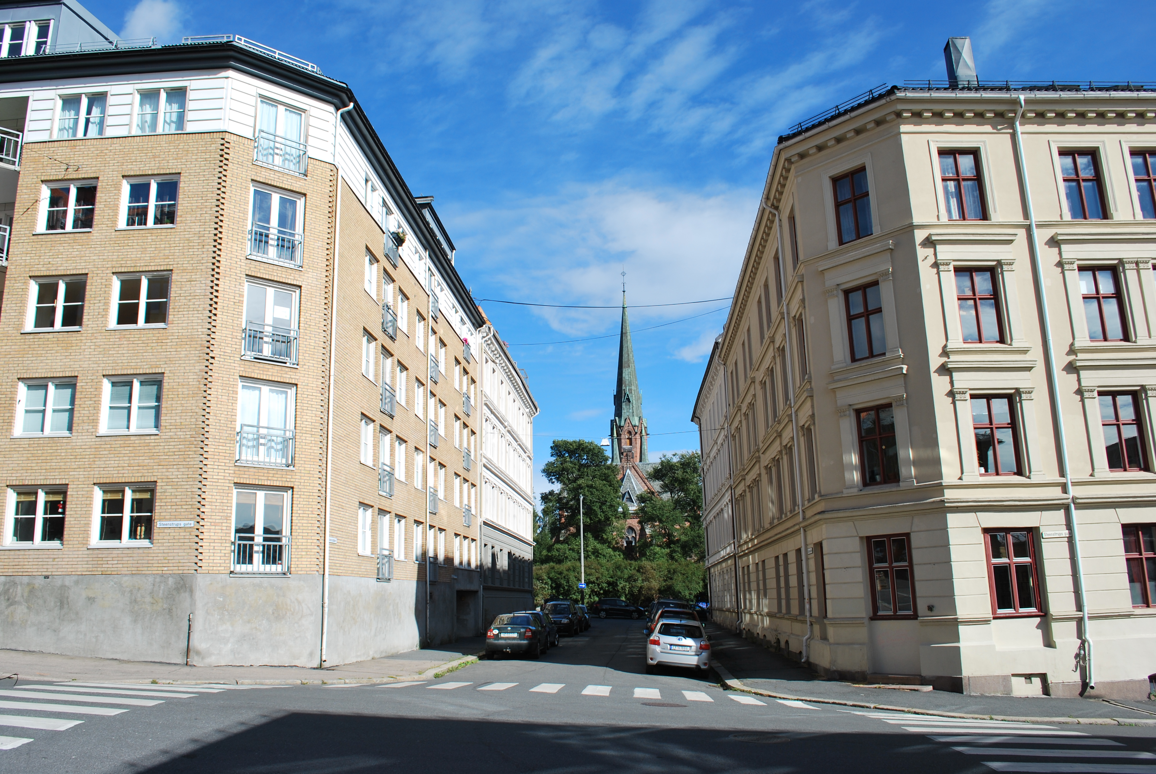 Grünerstubben (street), Grünerløkka neighbourhood, Oslo, seen from Steenstrups gate